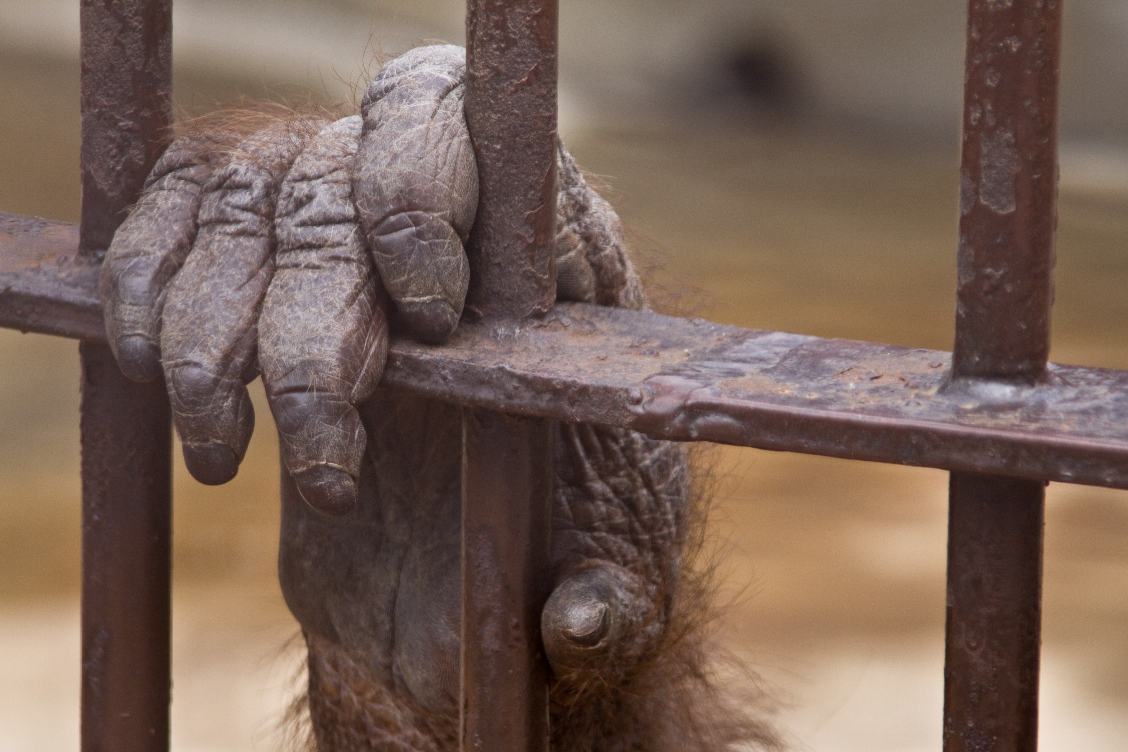 my recent uploads on flickriver